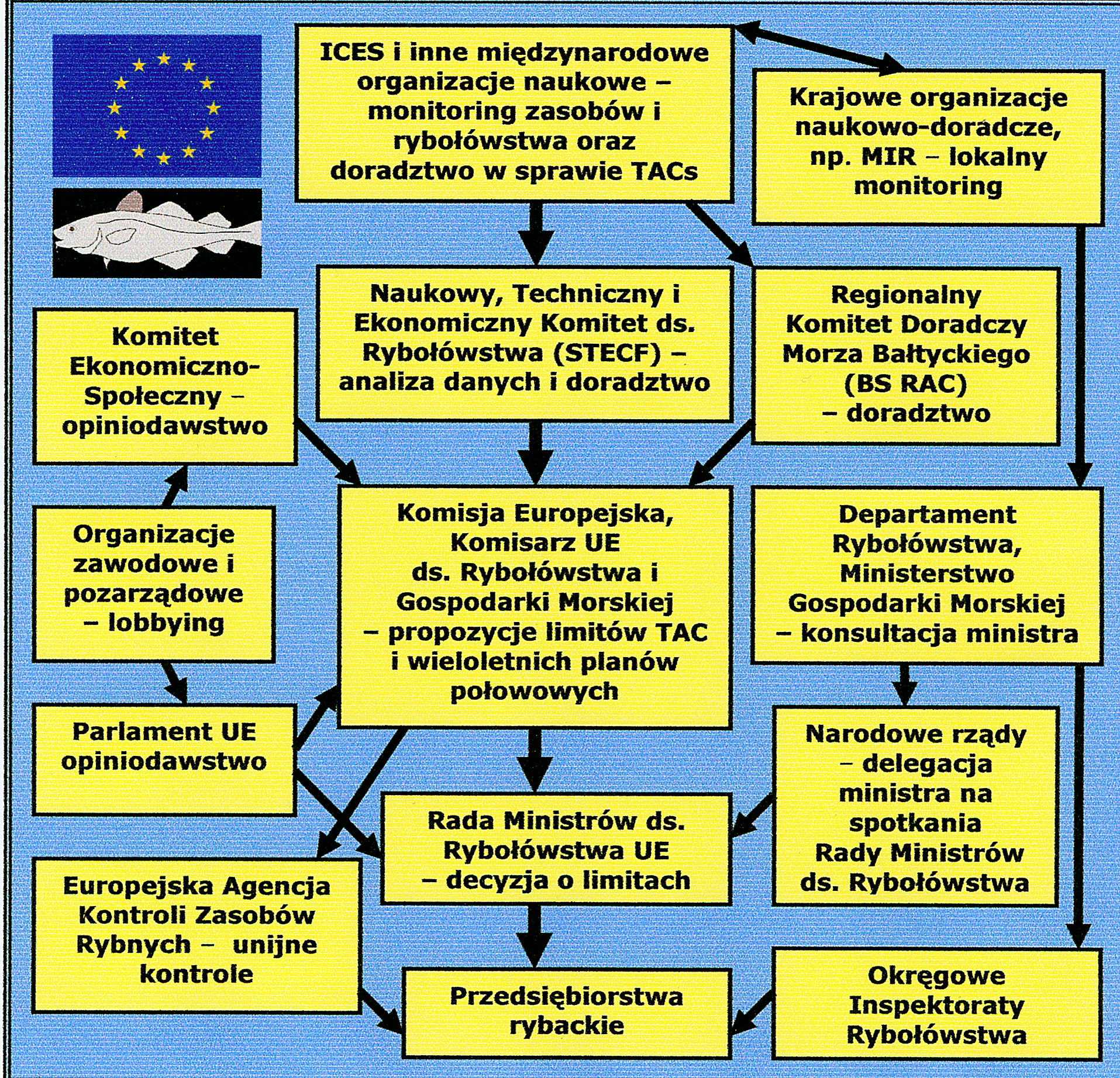 Schema of the decision making process on the TACs within the Common Fisheries Policy of the EU in Polish lenguage